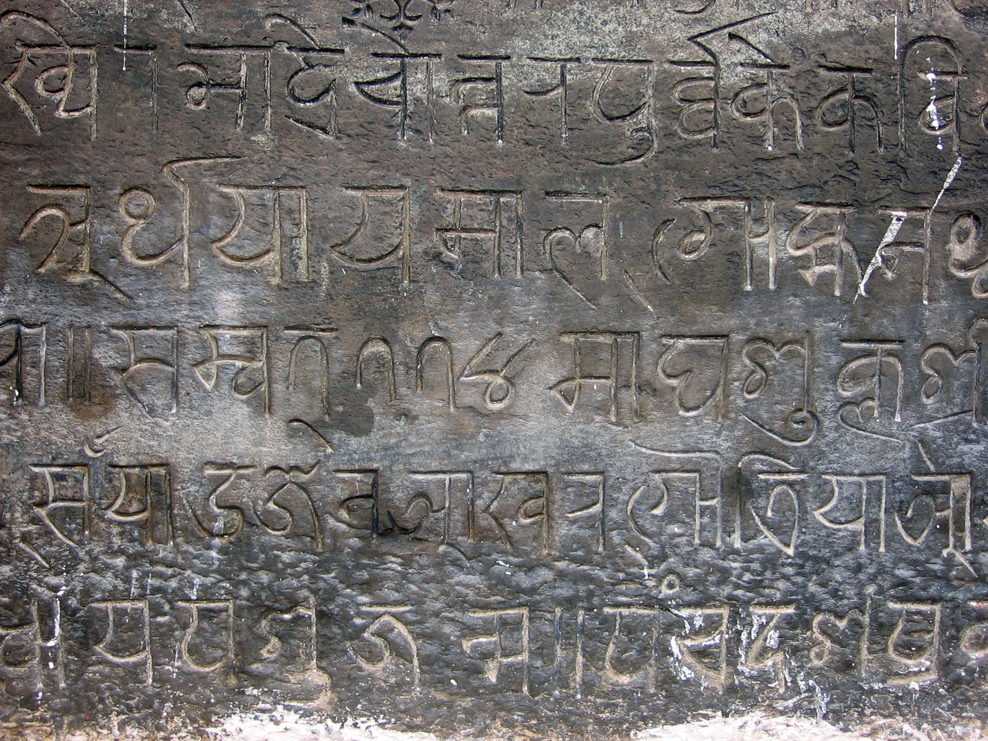 Seventeenth-century stone inscription in Kathmandu containing text in 15 languages.